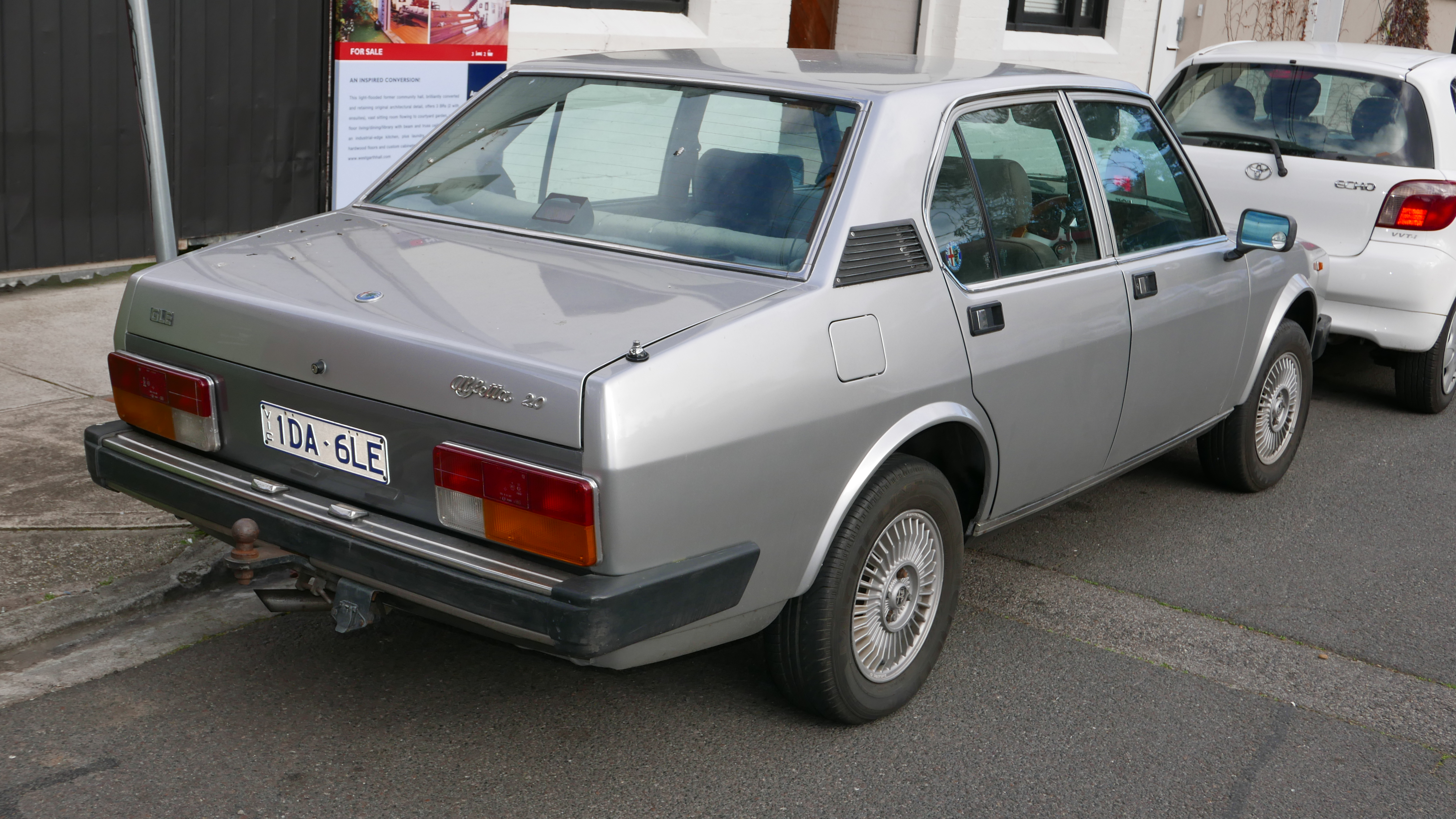 1979 Alfa Romeo Alfetta 2000L GLE sedan. Photographed in Northcote, Victoria, Australia. Vehicle registration enquiry results Jurisdiction Victoria Registration 1DA6LE Chassis code AR116560005315 Engine code AR01623071319 Compliance date 1979-10 Year of manufacture 1979